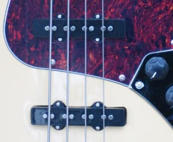 Dual "J"-Style Pickups